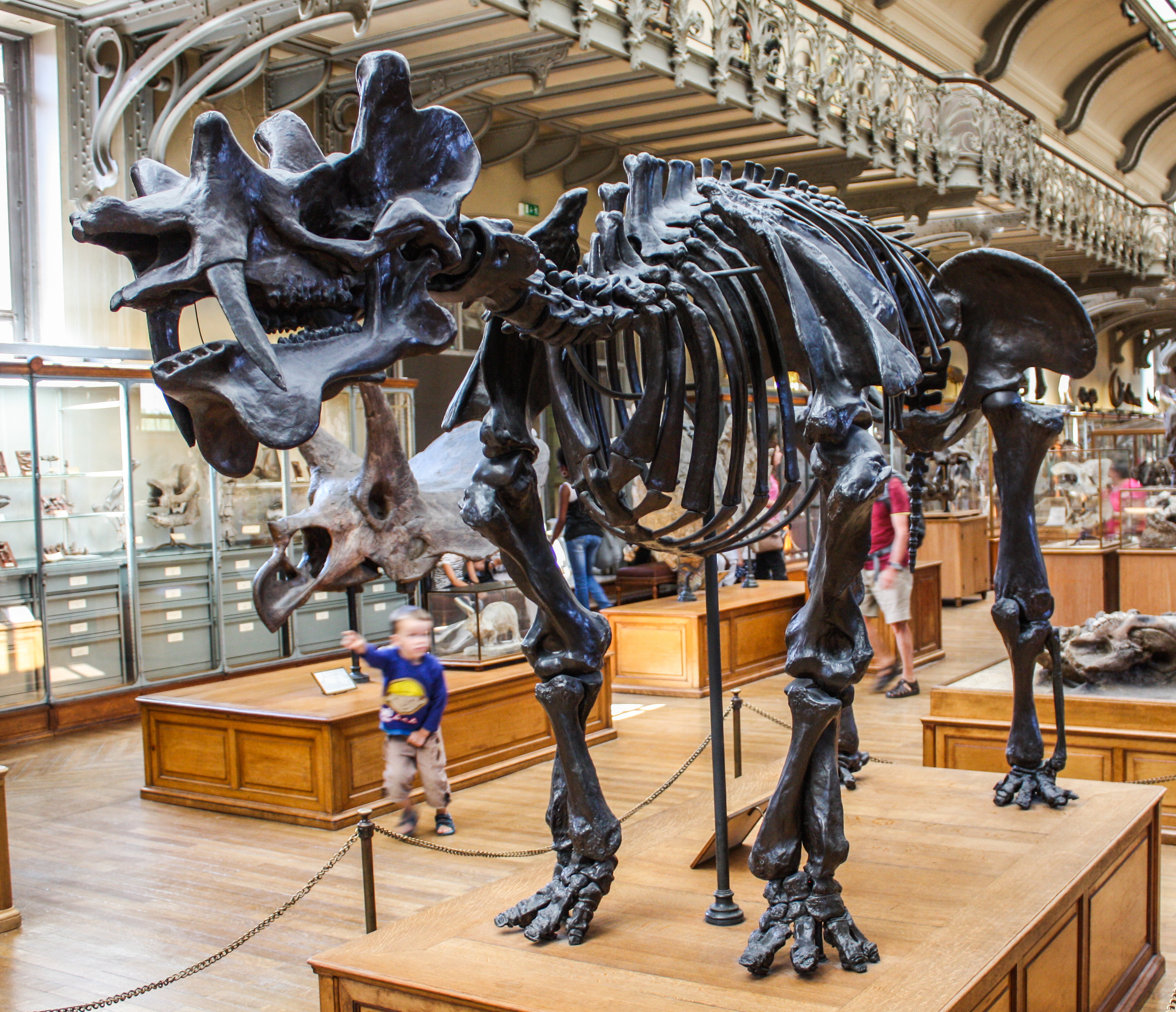 Museum of Natural History